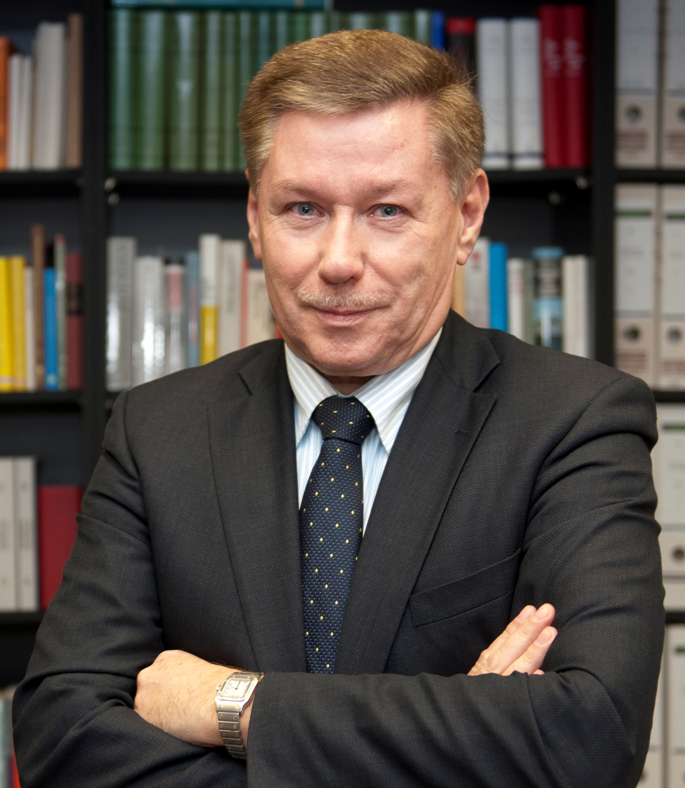 This pictures shows the historian Manfred Görtemaker, Professor of Modern History at the University of Potsdam.